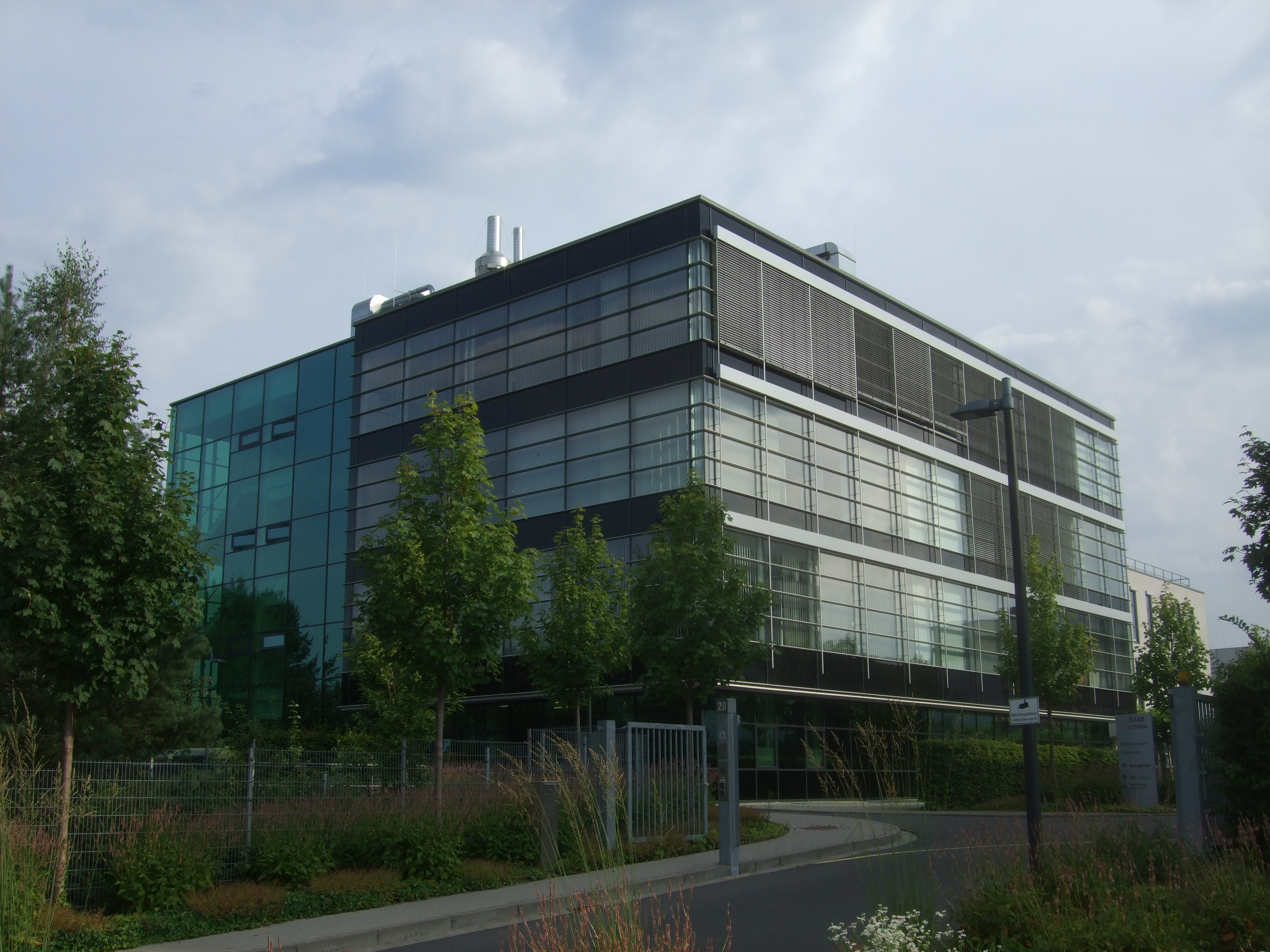 ZMD Design Center in Dresden